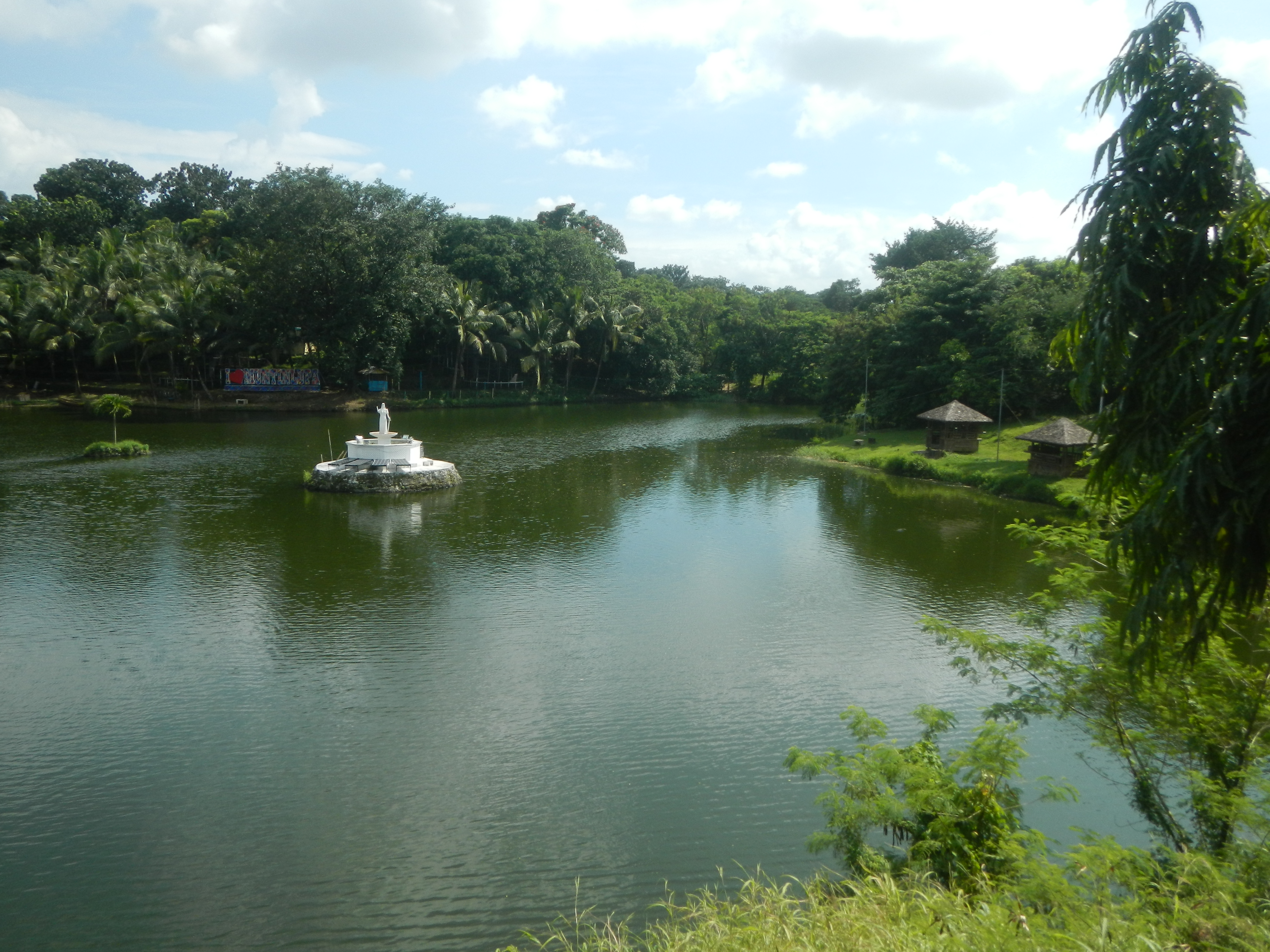 Iustitia National Bilibid Prison Reservation (Bureau of Corrections, Muntinlupa City) Eriberto B. Misa, Sr. monument Jamboree Lake (National Bilibid Prison Reservation, Bureau of Corrections, Muntinlupa City) Memorial for Peace (National Bilibid Prison Reservation, Bureau of Corrections, Muntinlupa City-Gunma-Machi, Japan) Grotto and Sunken Garden (National Bilibid Prison Reservation, Bureau of Corrections, Muntinlupa City) Itaas Elementary School (National Bilibid Prison Reservation, Bureau of Corrections, Muntinlupa City) South Luzon Expressway National Road (Alabang, Bayanan, Putatan and Poblacion), Muntinlupa City National Road (Tunasan, Muntinlupa City) Barangays Poblacion 14°22'48"N 121°1'53"E City of Muntinlupa Poblacion, Muntinlupa New Bilibid Prison Bureau of Corrections (Philippines) Putatan, Muntinlupa Tunasan Philippine highway network (Note: Judge Florentino Floro, the owner, to repeat, Donor Florentino Floro of all these photos hereby donate gratuitously, freely and unconditionally Judge Floro all these photos to and for Wikimedia Commons, exclusively, for public use of the public domain, and again without any condition whatsoever).